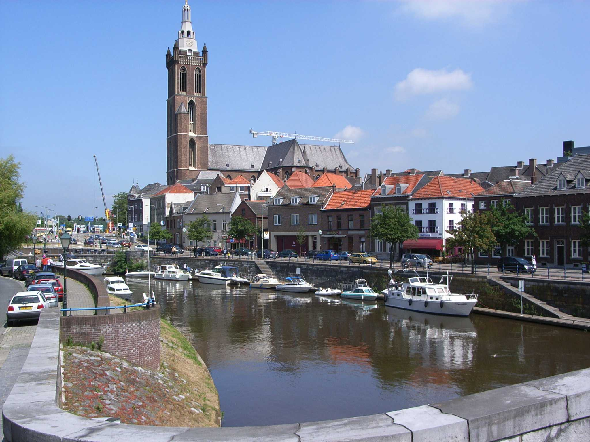 Rurufer und St.-Christophorus-Kathedrale, Roermond